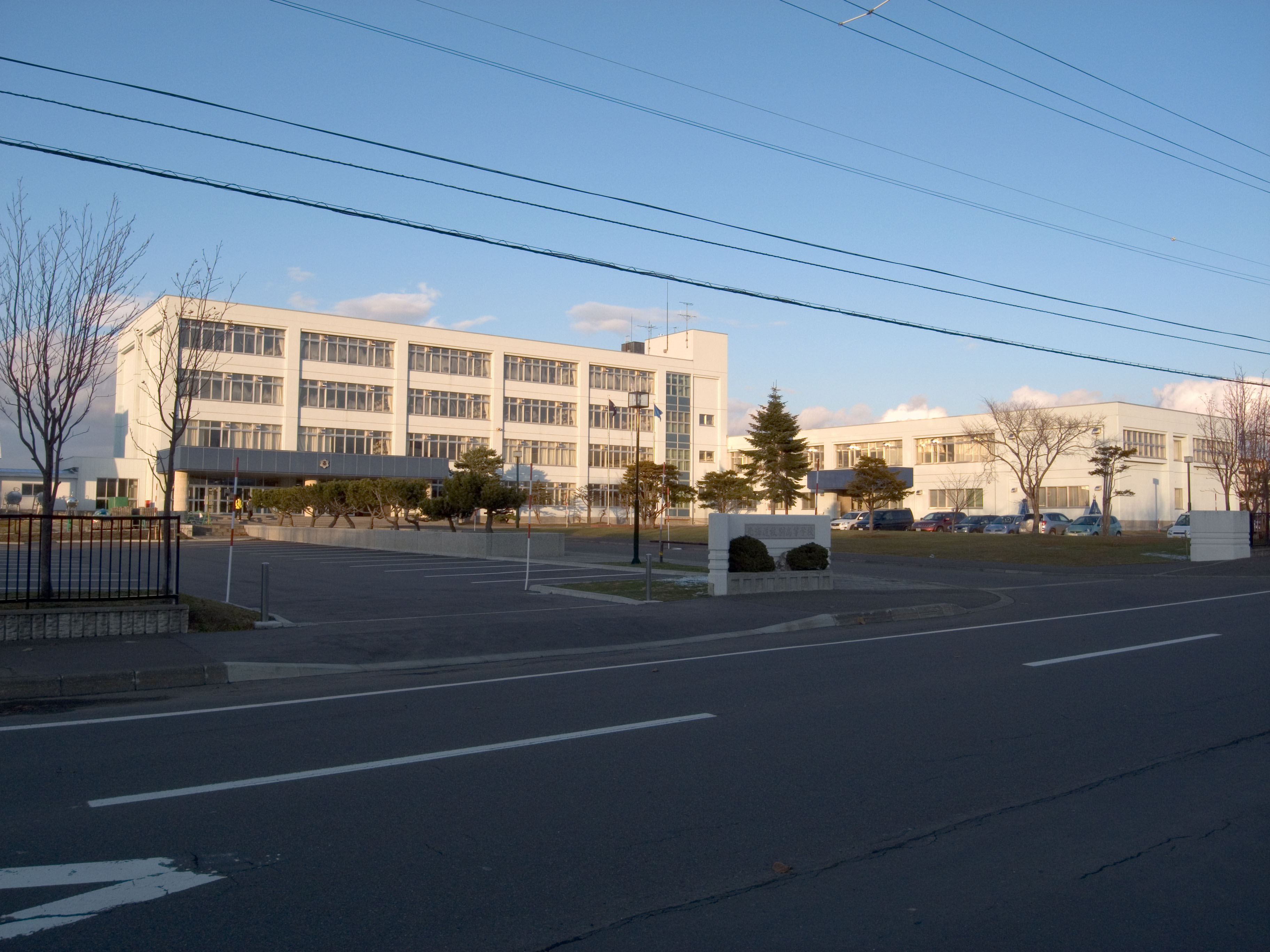 Hokkaido Mombetsu High Scool, Mombetsu, Hokkaido, Japan